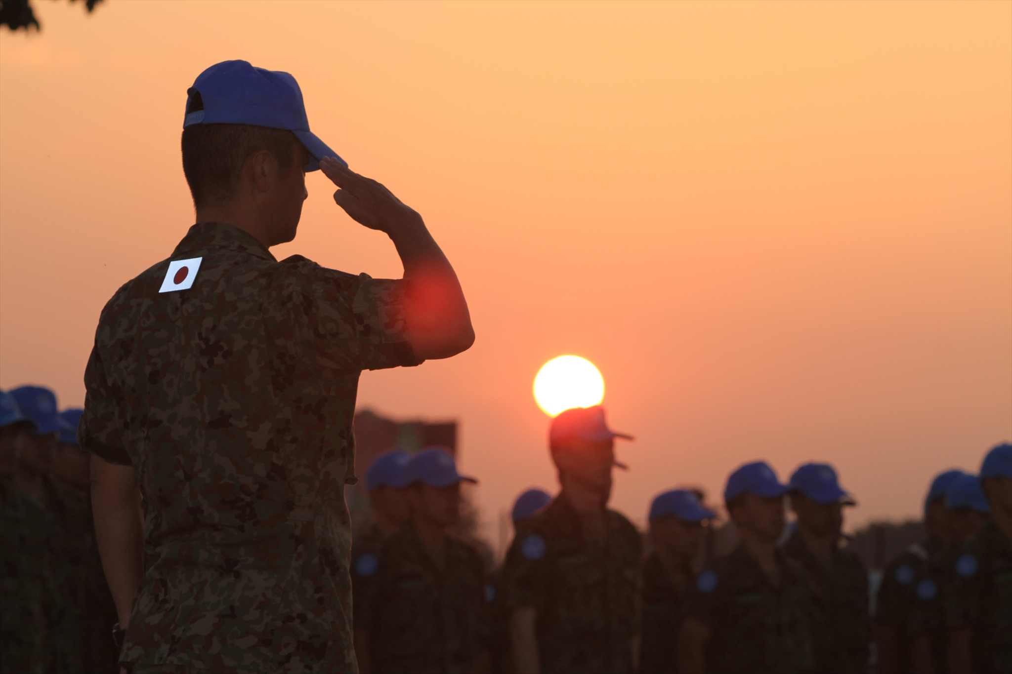 Title 2D-OO-3 (ハイチ)_R.JPG Album 国際平和協力活動等（及び防衛協力等） 国連ハイチ安定化ミッション 夕日の中での終礼